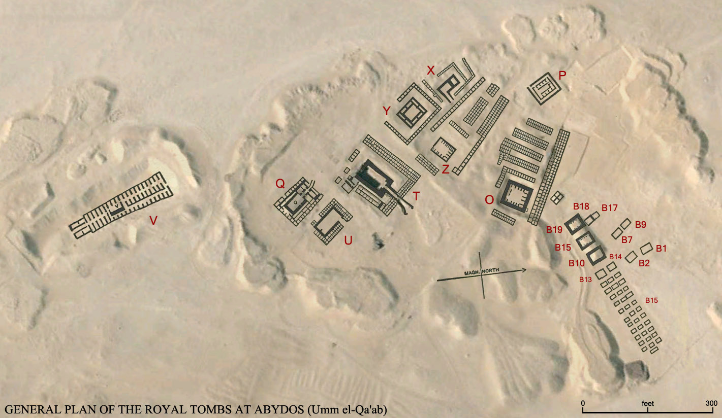 Map overlay of Peqer necropolis at Umm el-Qa'ab near Abydos in Egypt. The tombs of pharaohs are marked with letters. Tomb of Iry-Hor (B1-B2) Tomb of King Ka (B7-B9) 1st Dynasty Tomb of Narmer (B17-B18) Tomb of Aha (B19-B15-B10) Tomb of Djer (O) Tomb of Djet (Z) Tomb of Merneith (Y) Tomb of Den (T) Tomb of Anedjib (X) Tomb of Semerhket (U) Tomb of Qaa (Q) 2nd Dynasty Tomb of Peribsen (P) Tomb of Khasekhemwy (V)